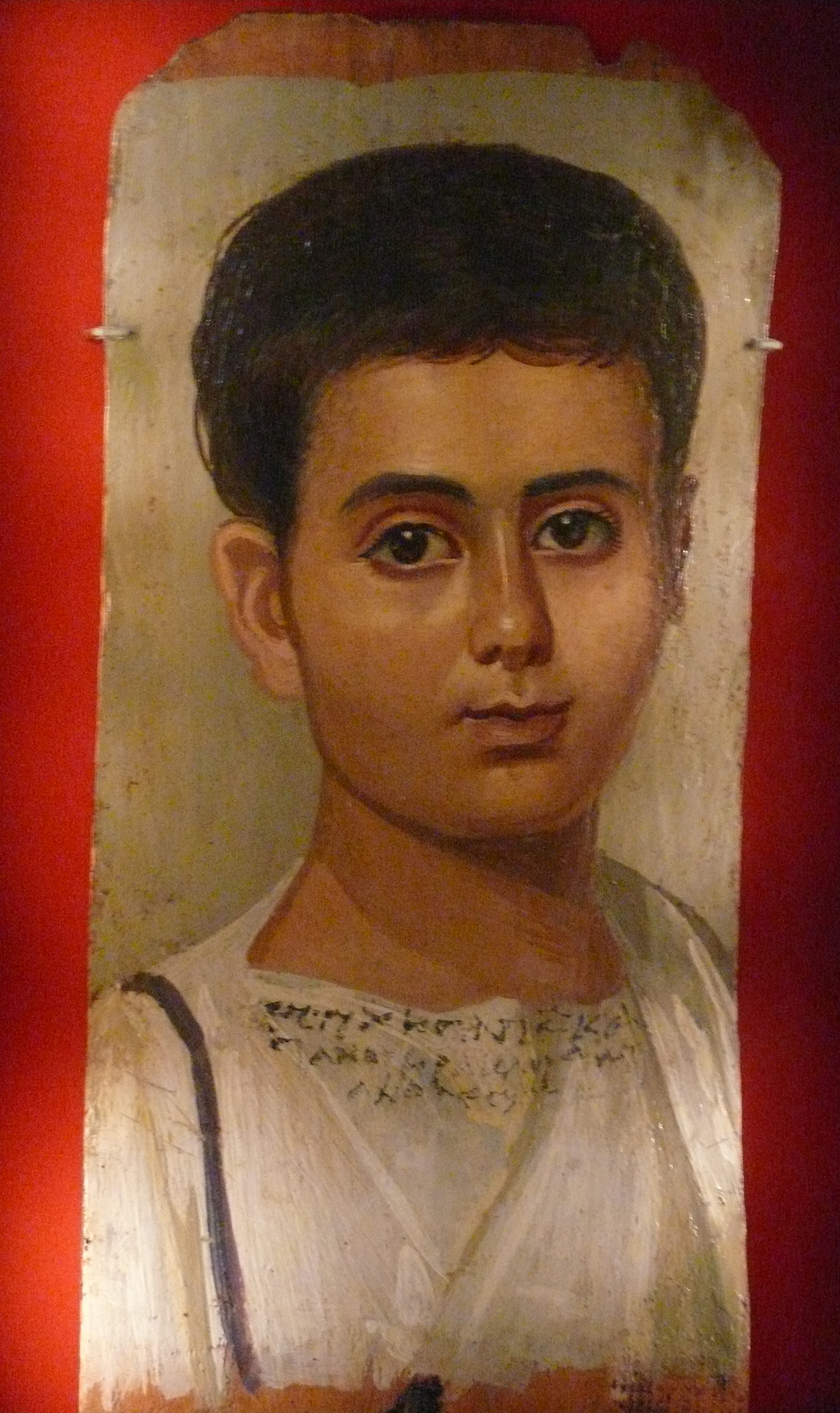 Portrait of the boy Eutyches in the Metropolitan Museum of Art, New York, NY. Encaustic on limewood AD 100-150 dimensions: h. 38 cm; w. 19 cm Gift of Edward S. Harkness Accession number: 18.9.2